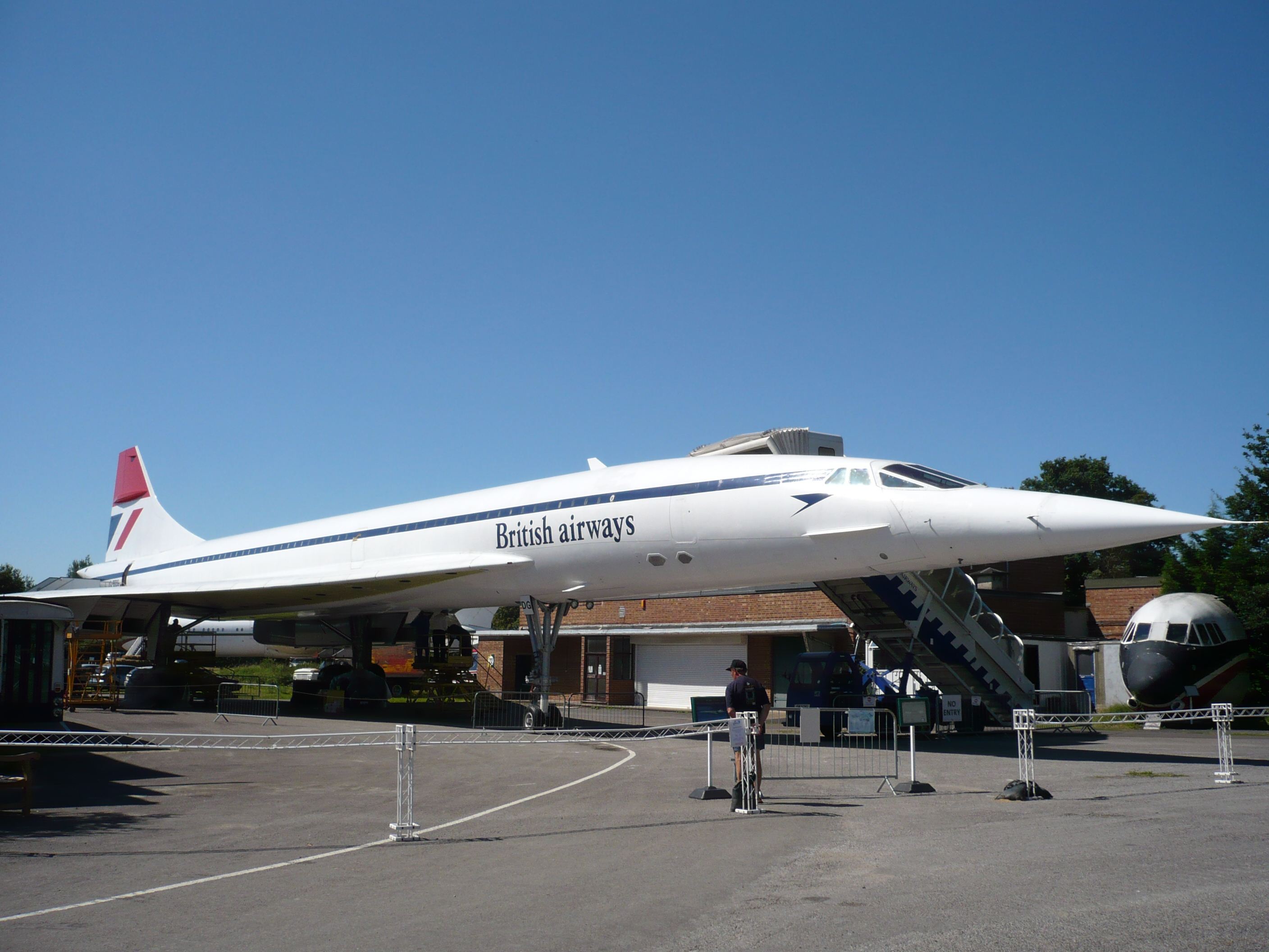 A British Airways Concorde Reg. G-BBDG at Brooklands Museum. It was the first British production Concorde ever to be built.